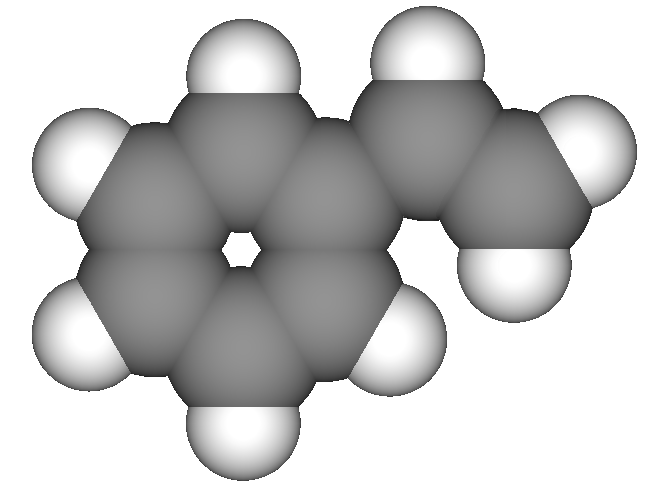 3d depiction of Styrene. Created by Sbrools (talk . contribs) 19:23, 5 May 2007 (UTC) The previous image looked more like ethylbenzene than styrene judging from the 3D molecular configuration and comments on an Wikipedia Talk page. H Padleckas (talk) made a corrected version of this image in the middle of May 2007 and uploaded it now. H Padleckas (talk) 23:47, 22 November 2007 (UTC)